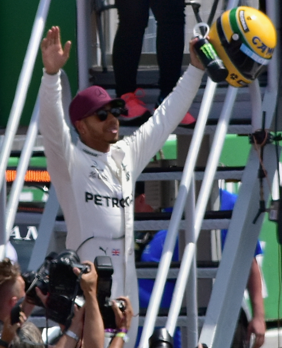 Showing Senna's helmet, that he had just been offered by the Senna family, the crowd.